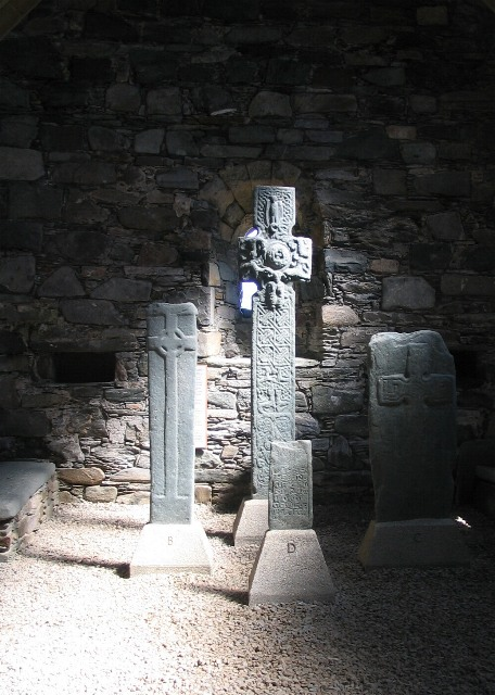 Early Christian crosses, Keills Chapel